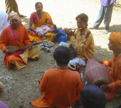 Baul singers at Vasantotsav, Shantiniketan